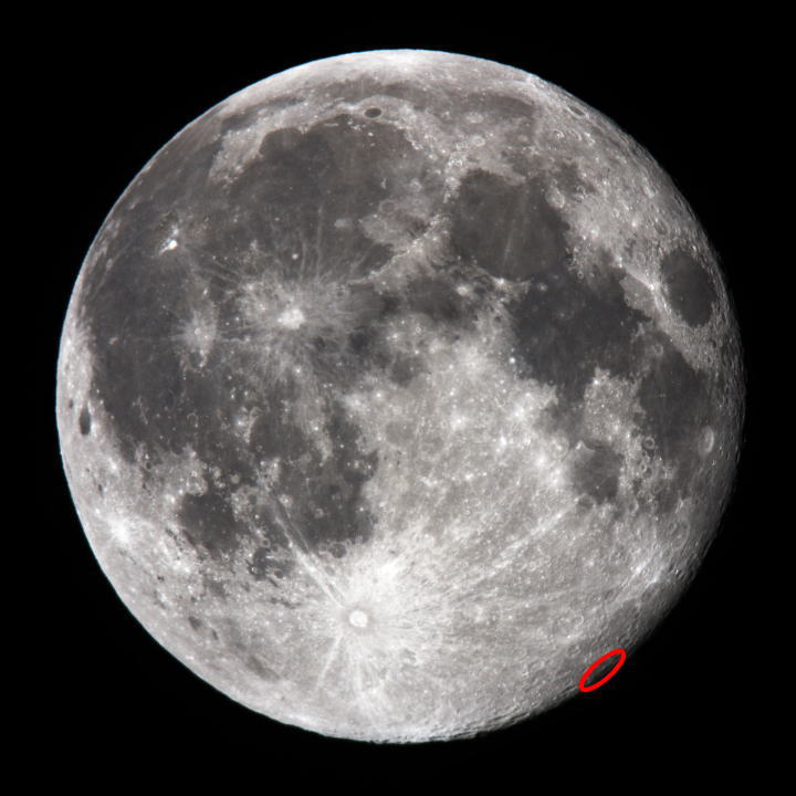 The Location of Mare Australe, One of the Lunar Geographical Features.